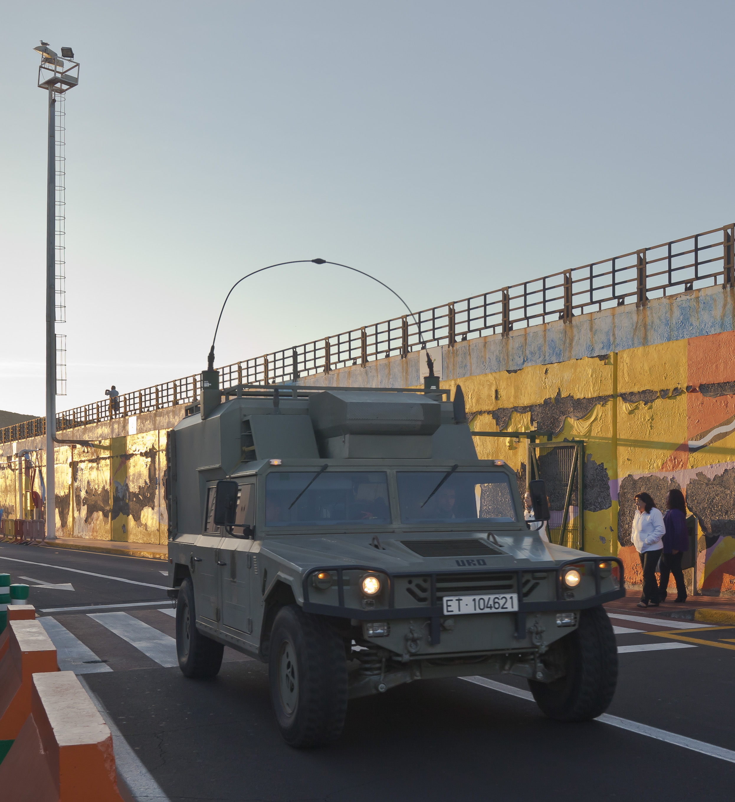 URO VAMTAC Mercurio 2000 of the Spanish Army, Cristianos, Tenerife, Spain